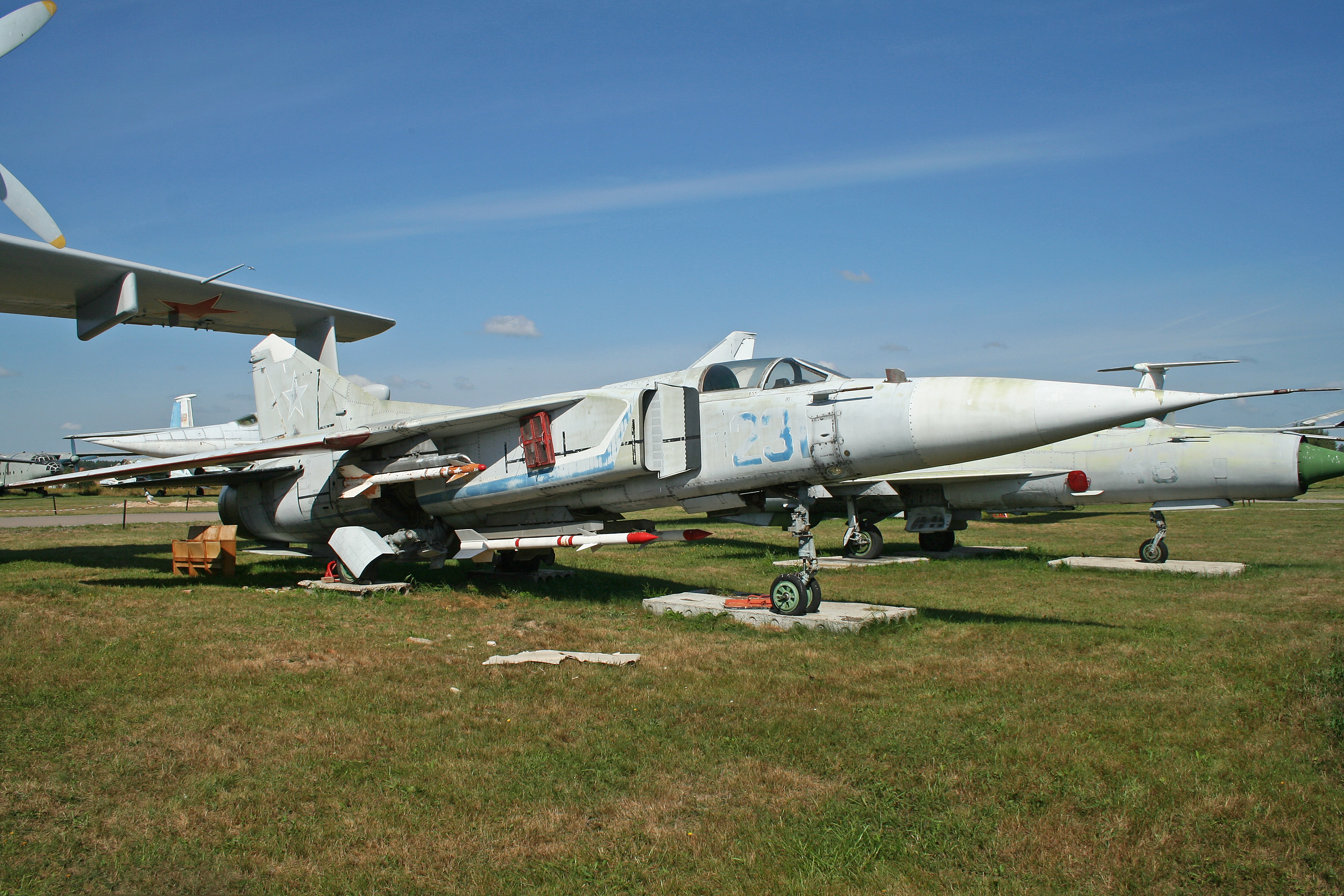 There is much confusion caused by both of the MiG-23s at Monino being coded '231 blue'! This, I believe, is the original '231 blue' and is therefore the first prototype MiG-23, in unmodified form. It first flew on 10th June 1967. c/n 23-11/1. On display at the Russian Air Force Museum. Monino, Russia. 13-8-2012